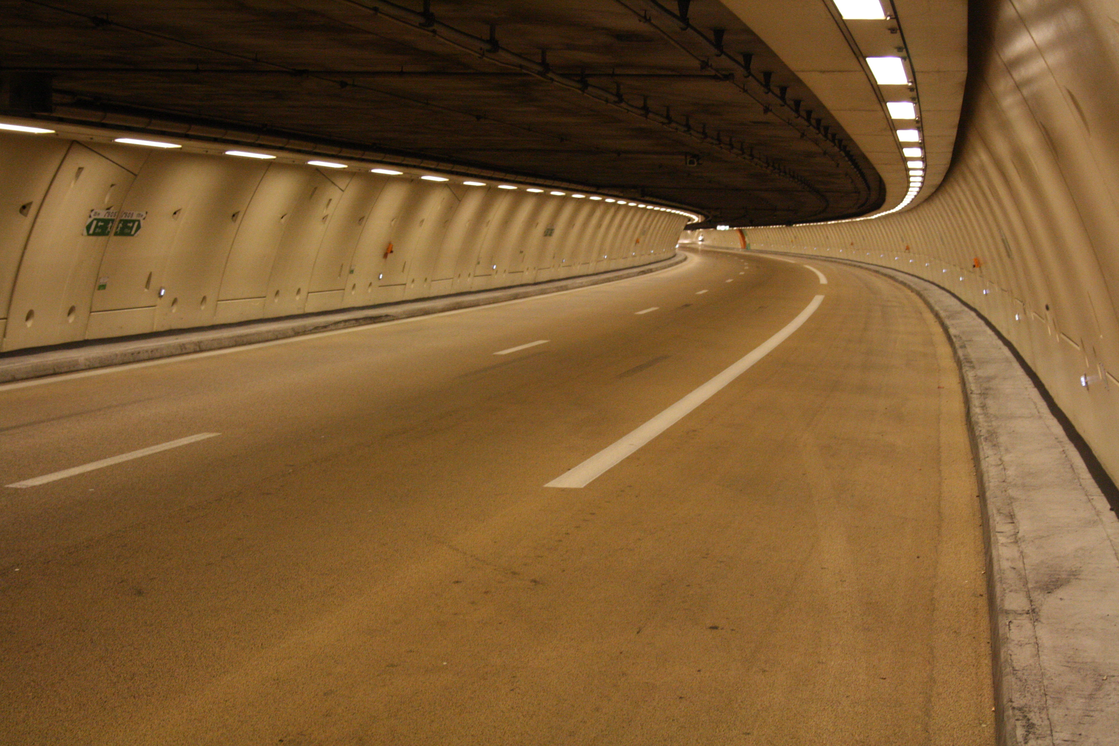 Duplex A86 is tunnel of the A86 highway between Rueil-Malmaison et Jouy-en-Josas, France.